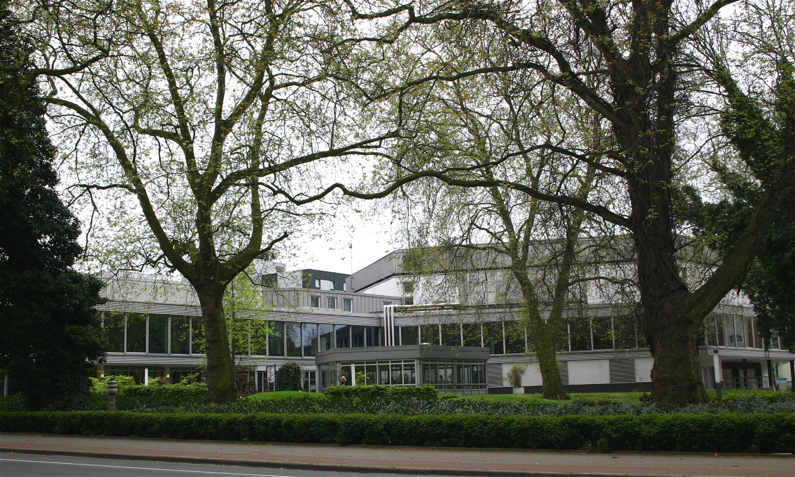 Luise-Albertz-Hall in Oberhausen (Germany)